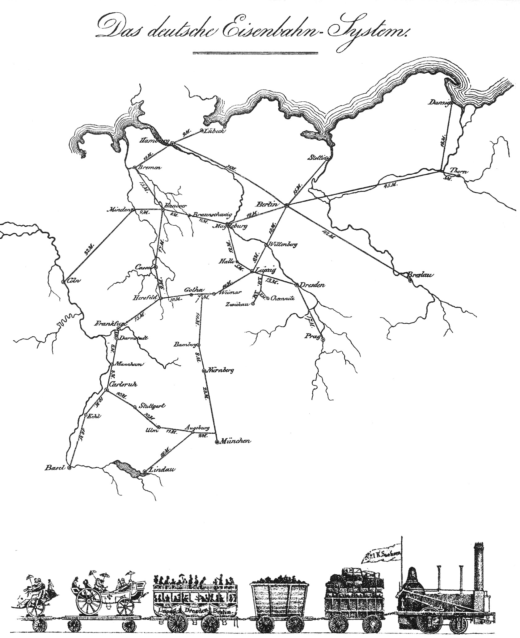 Picture of the german book “Friedrich List und die erste grosse Eisenbahn Deutschlands. Ein Beitrag zur Eisenbahngeschichte” Title: “Friedrich List’s Entwurf zu einem Deutschen Eisenbahnsystem aus dem Jahre 1833.” See german Wikisource: Friedrich List und die erste große Eisenbahn Deutschlands